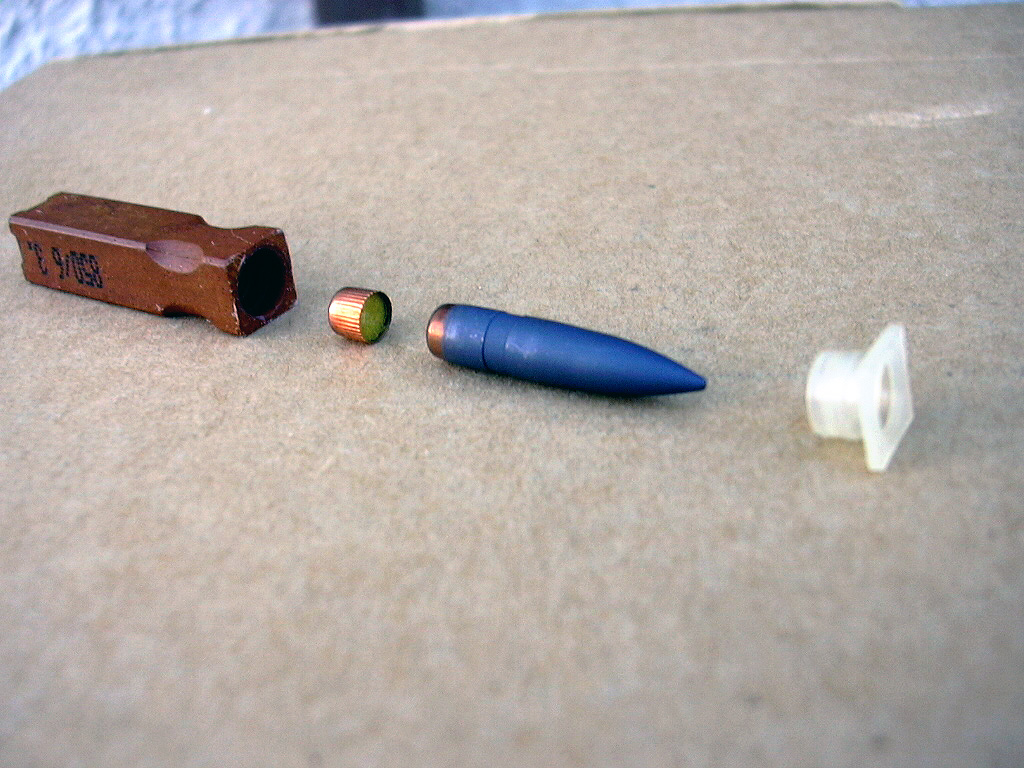 By: Drake May 10, 2007 4.73x33 Caseless for G11 rifle